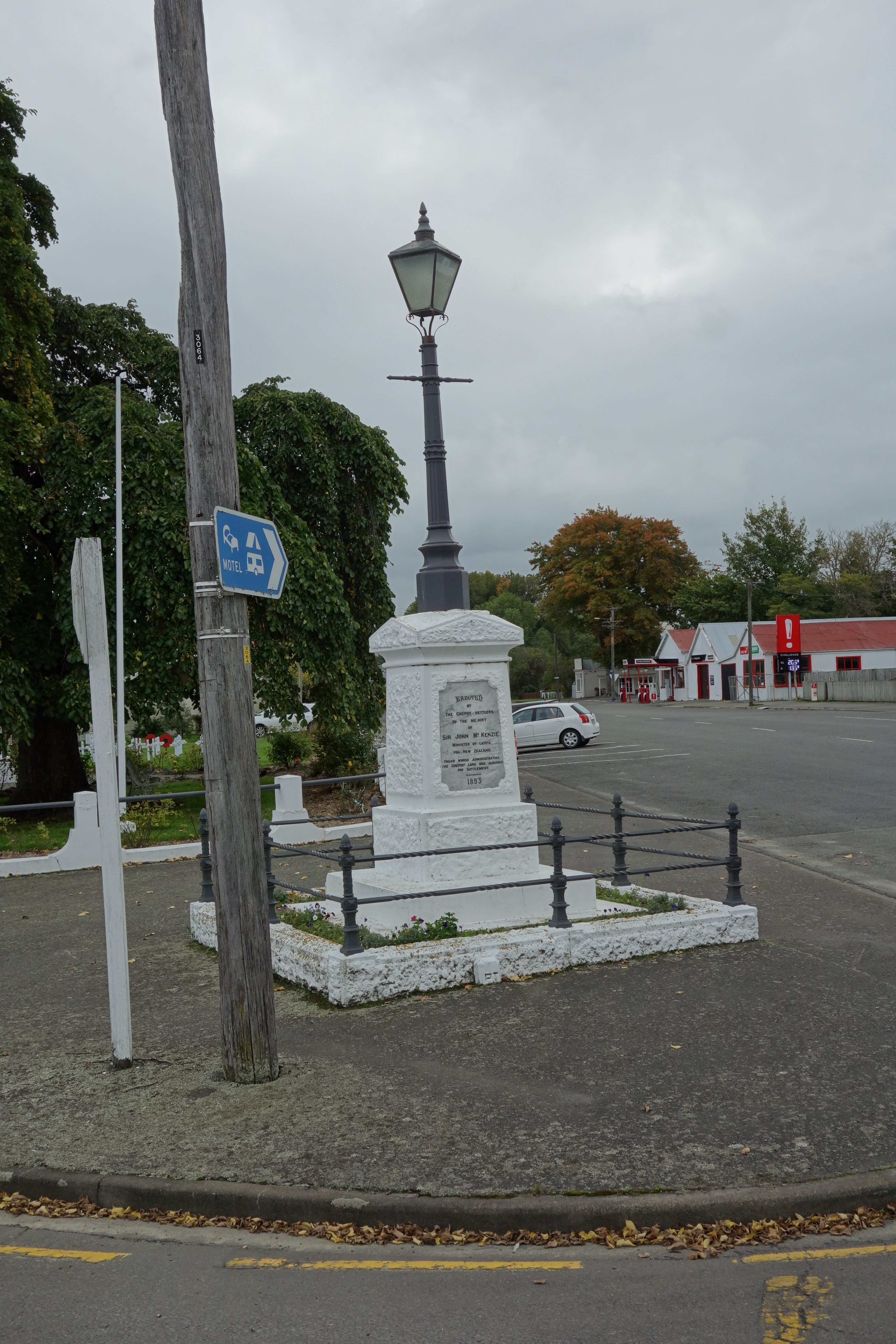 John McKenzie memorial in Cheviot.